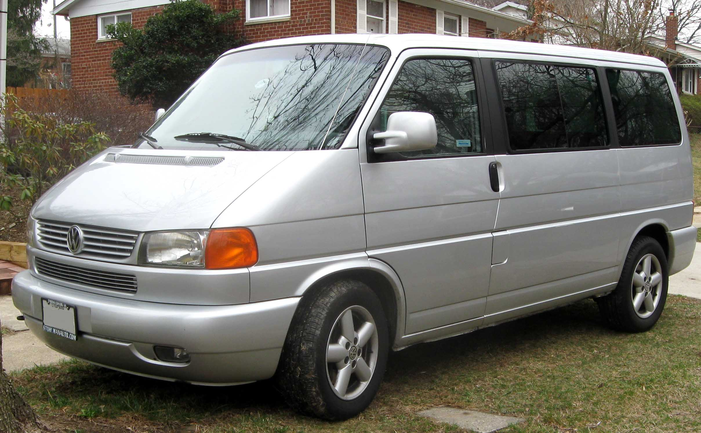 Volkswagen Eurovan photographed in Rockville, Maryland, USA.